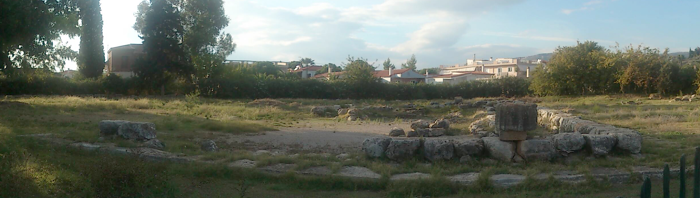 Naos Apollona